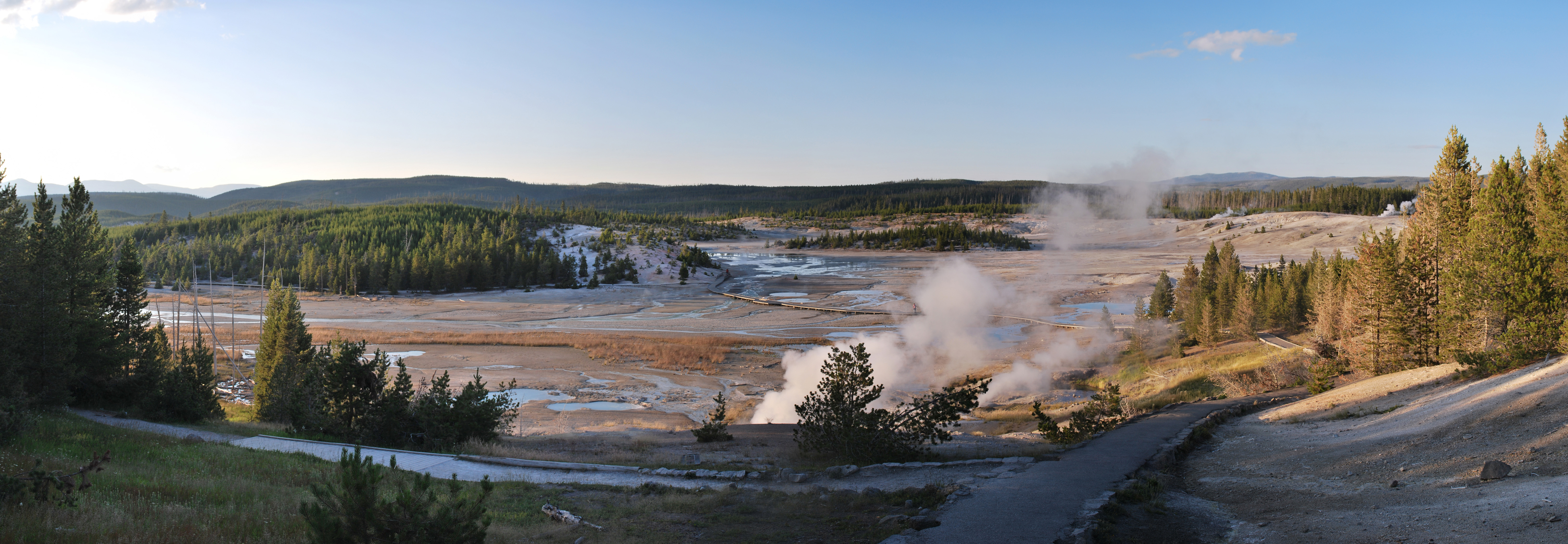 A view of the Porcelain Basin at the Norris Basin in Yellowstone National Park